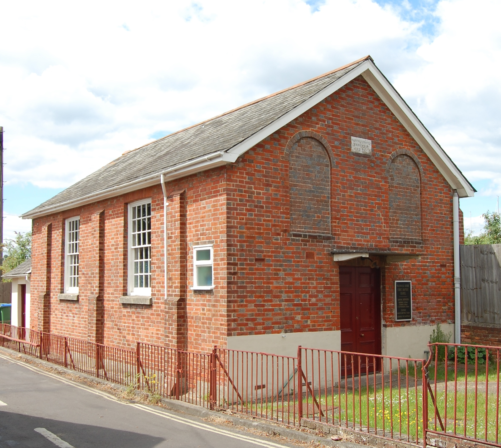 Swanwick Shore Strict Baptist Chapel, Bridge Road, Lower Swanwick, Borough of Fareham, Hampshire, England. Built for Strict Baptists in 1844 and still in use.